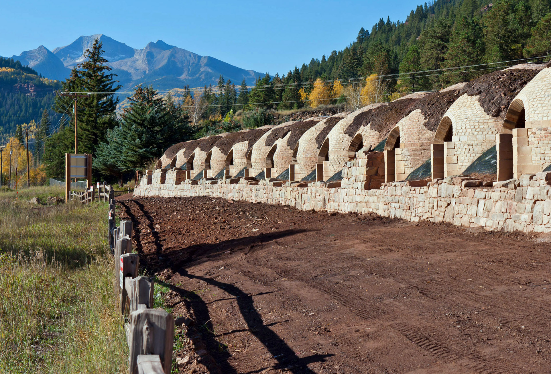 Historic coke ovens just outside Redstone, CO, being restored in 2011